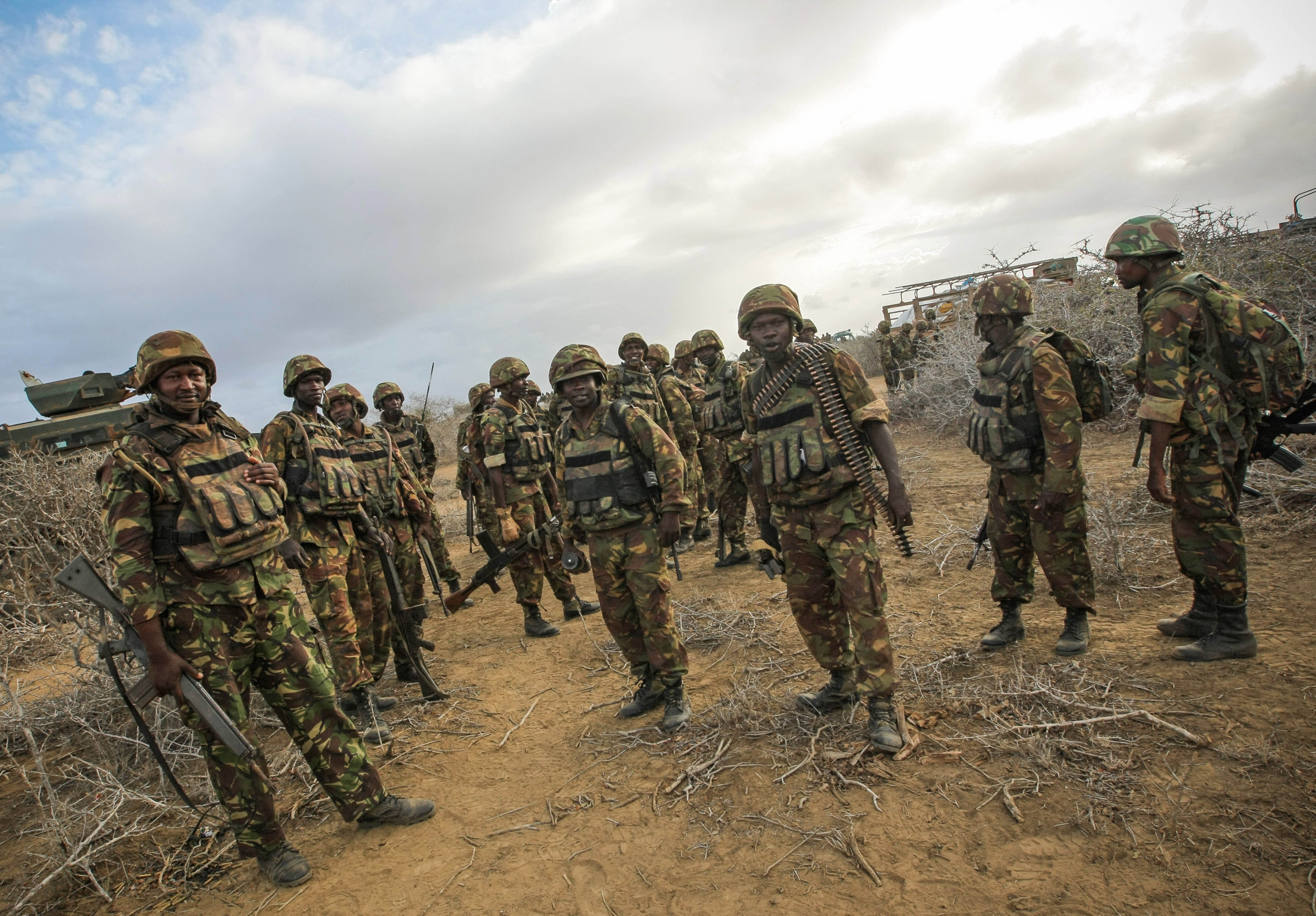 Troops from the Kenyan Contingent of the African Union Mission in Somalia (AMISOM) form-up in the early morning ahead of an advance on the Somali port city of Kismayo. Kenyan AMISOM troops moved into and through Kismayo on 02 October 2012, the hitherto last major urban stronghold of the Al-Qaeda-affiliated extremist group Al Shabaab, on their way to the city's airport without a shot being fired following a month-long operation to liberate towns and villages across southern Somalia from Afmadow to Kismayo. Al Shabaab, the once feared and brutal extremist group, has lost a succession of strategic towns and villages across Somalia to AMISOM and Somali National Army (SNA) forces in sustained operations against them since they withdrew from fixed positions in the capital Mogadishu in August of 2011. AU-UN IST PHOTO / STUART PRICE.